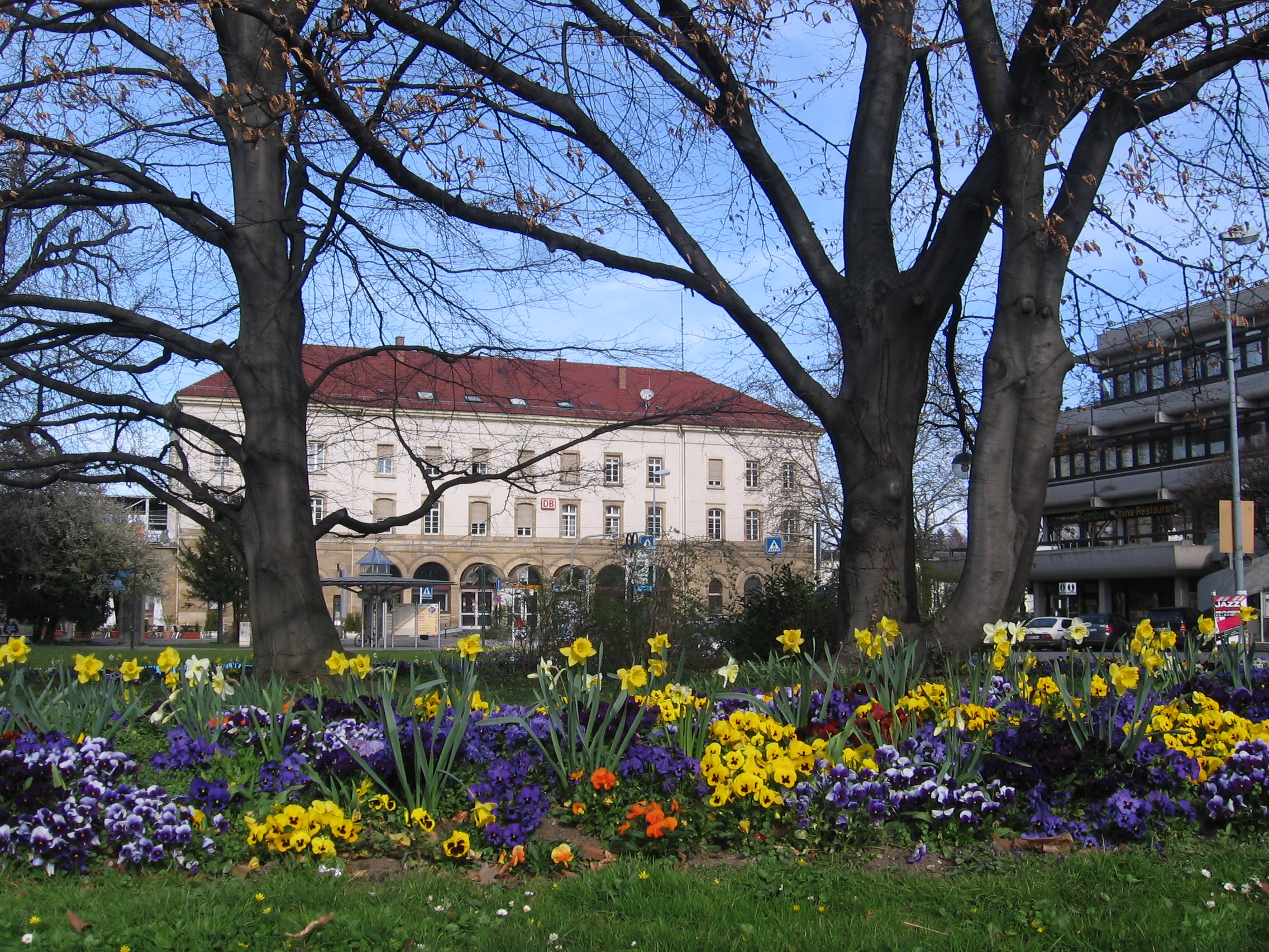 Reutlingen Hauptbahnhof (main train station) exterior with trees and flowers